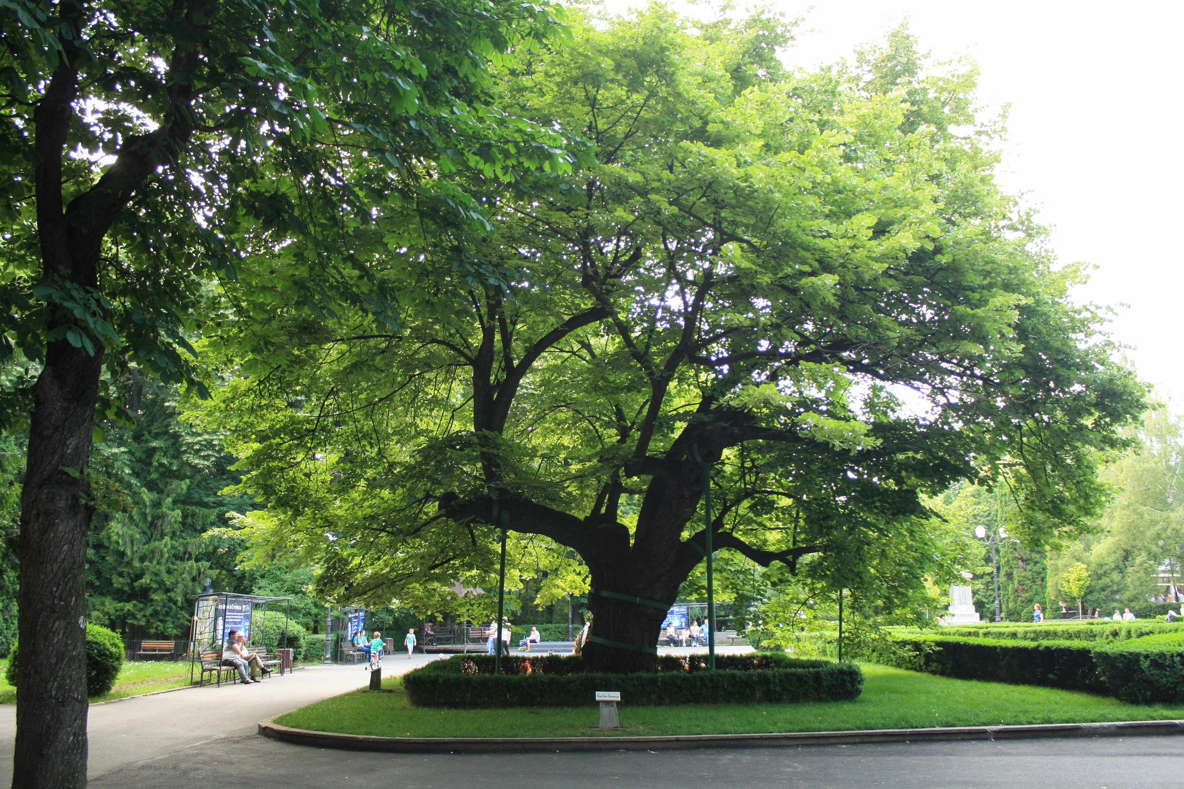 Teiul lui Eminescu (panoramă dinspre sud)